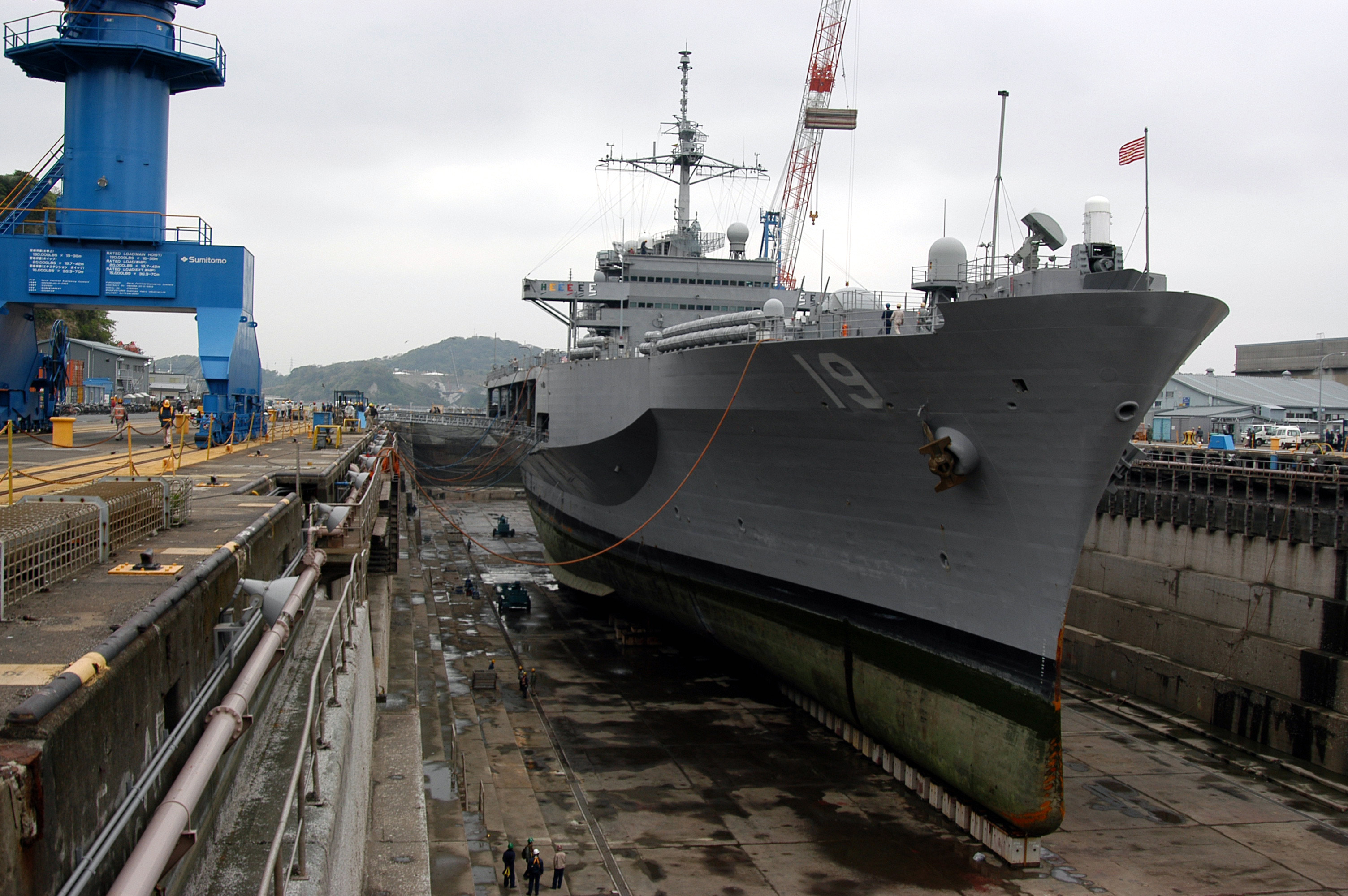 Yokosuka, Japan (Apr. 13, 2004) - USS Blue Ridge (LCC 19) rests in the Naval Ship Repair Facility dry dock located in Yokosuka, Japan. Blue Ridge is scheduled to undergo an extensive dry dock maintenance period for several months. The 7th Fleet command and control ship Blue Ridge is forward deployed to Yokosuka, Japan. 7th Fleet command ship duties have been temporarily transferred to USS Coronado (AGF 11), which deployed from its homeport of San Diego, Calif., earlier this year. U.S. Navy photo by Photographer's Mate 3rd Class Lowell Whitman. (RELEASED)